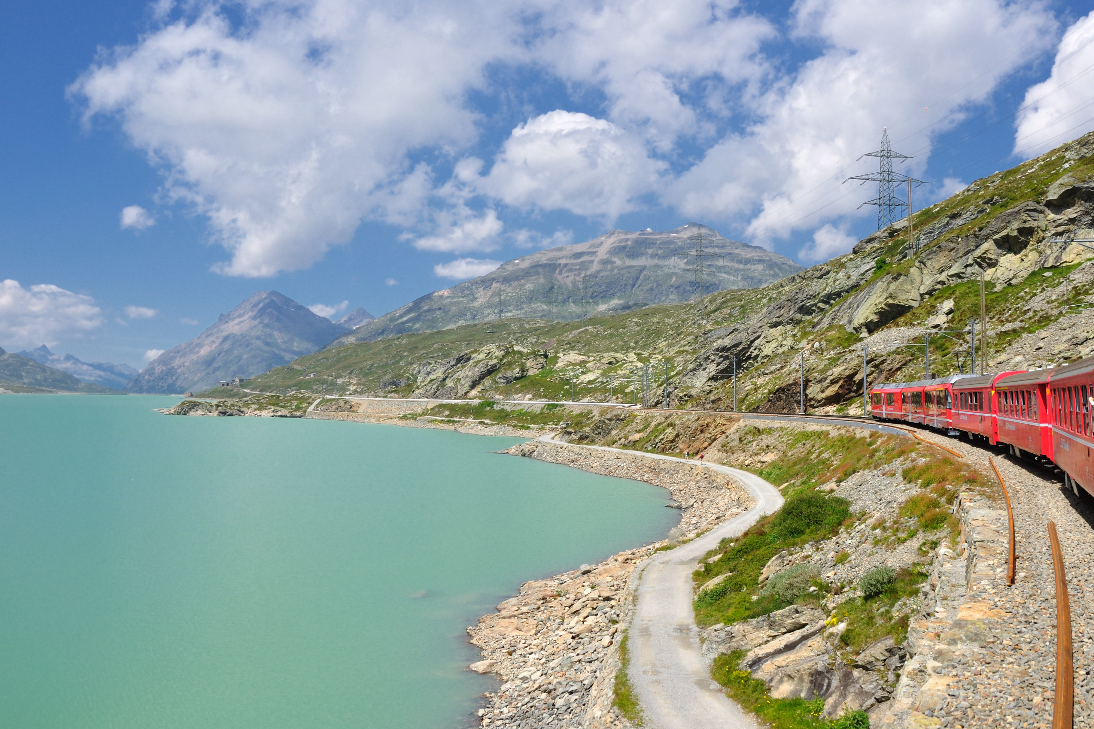 Switzerland, Graubünden, train of the Bernina line of the Rhaetian railway travelling along Lago Bianco. In the background Ospizio Bernina